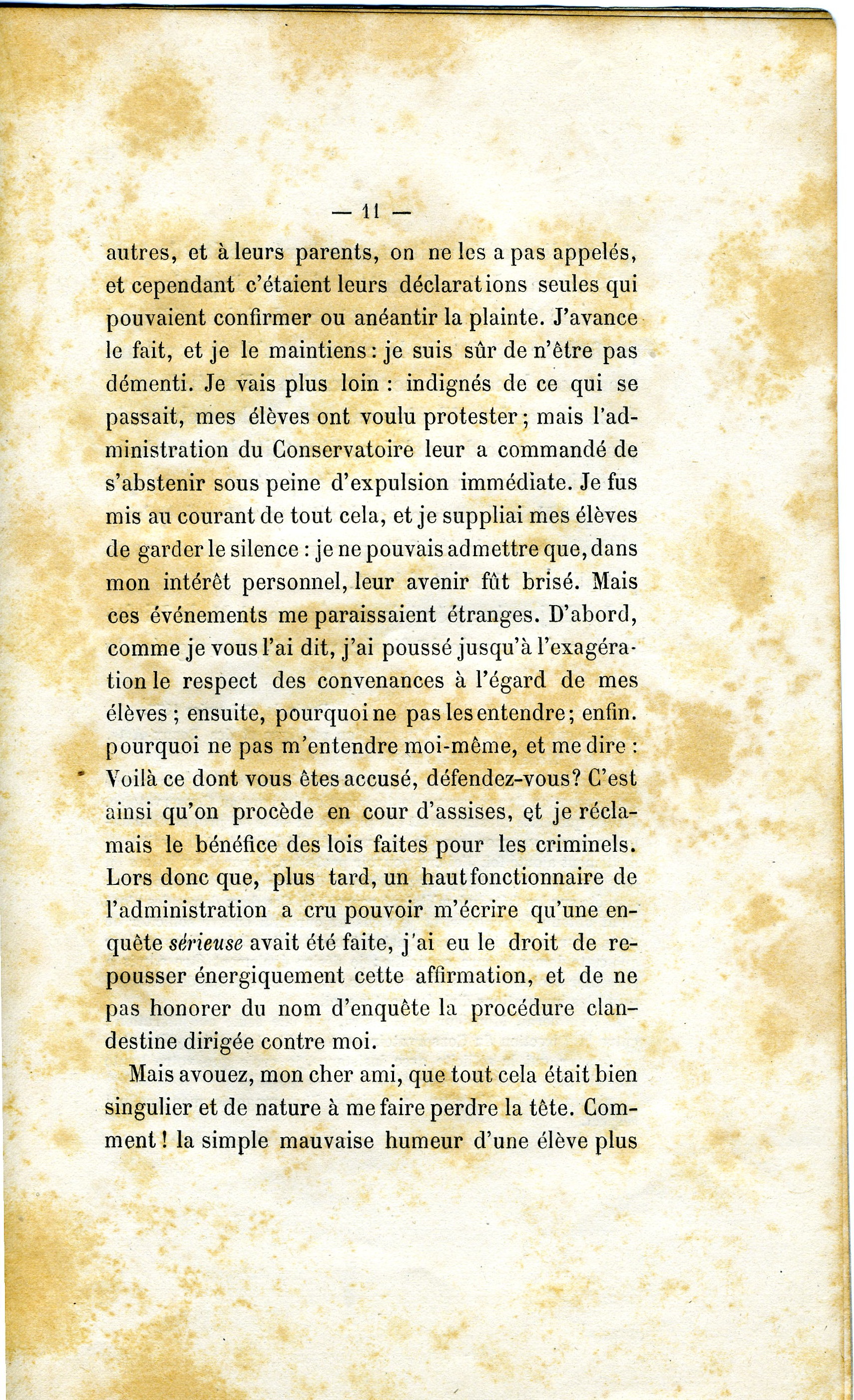 Justification Jean-Vital Jammes